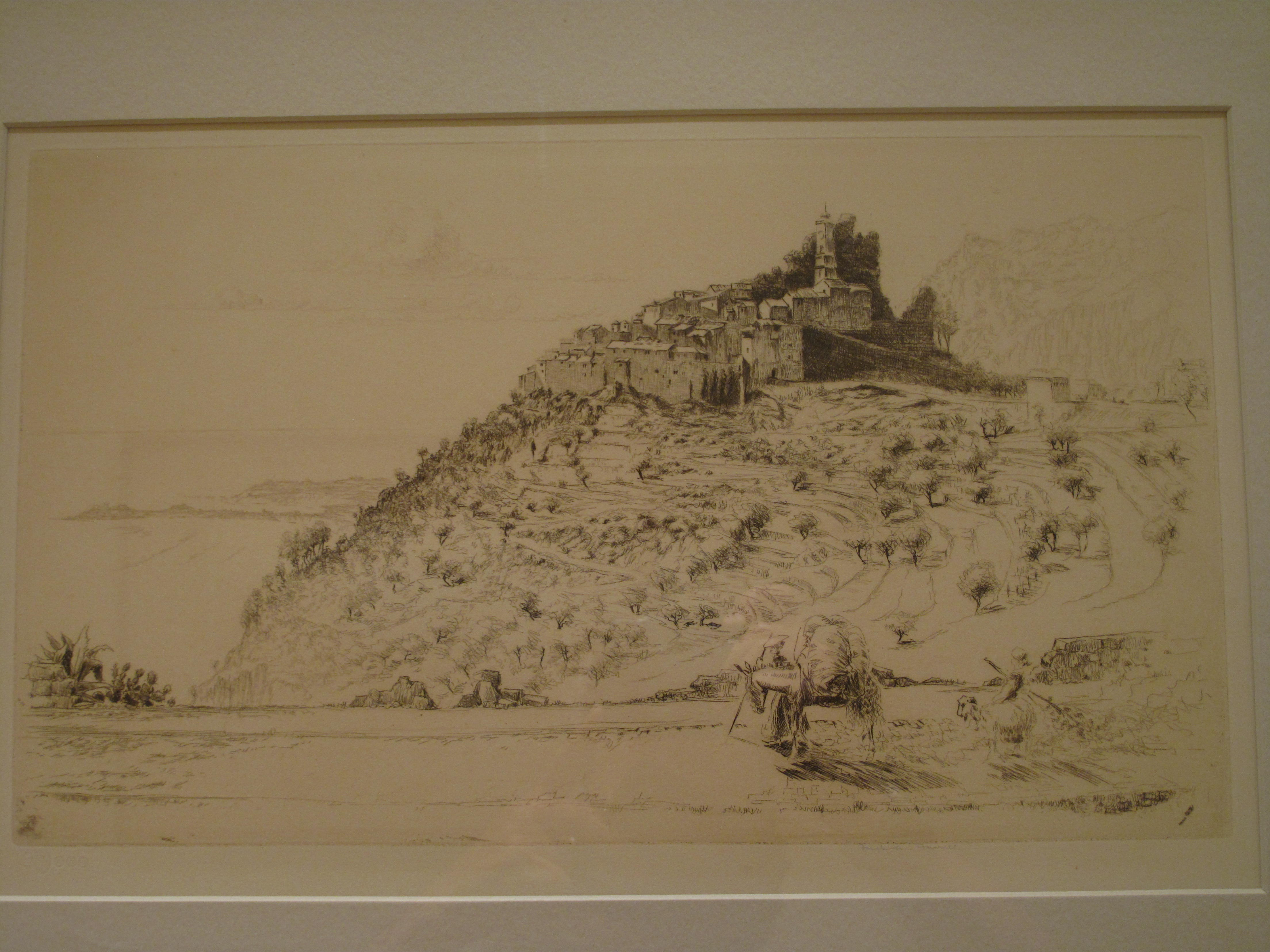 Old engraving of Eze (Alpes-Maritimes, France).